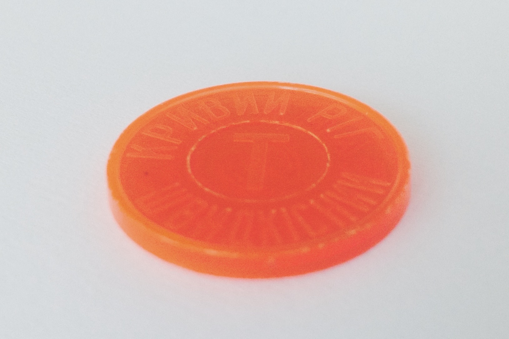 Kryvyi Rih metrotram token